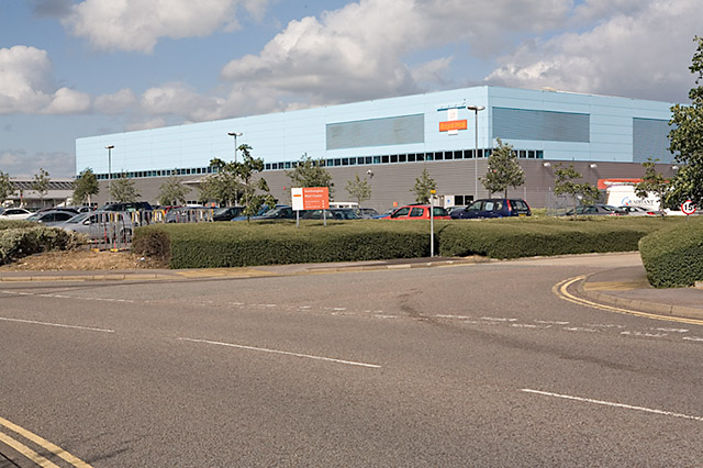 Royal Mail's Southampton Mail Centre, Eastleigh On Mitchell Way, right next to the airport. The darker blue rectangles on the building are actually louvred vents of some kind, which cannot be seen properly at this resolution.